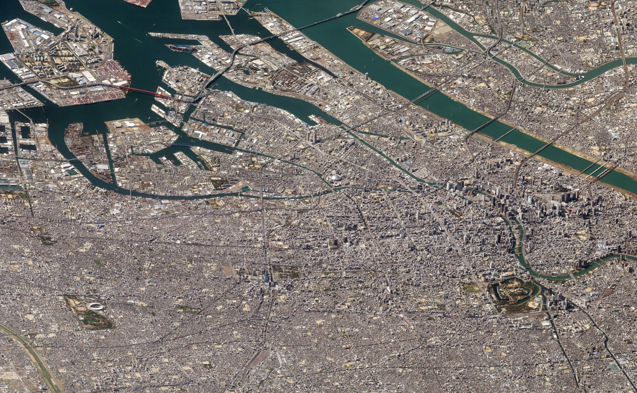 SkySat satellite image of Osaka, Japan